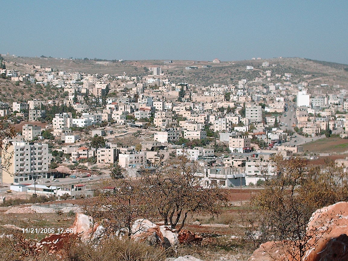 shmuel kohn, taken during israeli patrol in area in year 2006 Source=